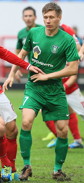 Valeri Sorokin with FC Tom Tomsk.